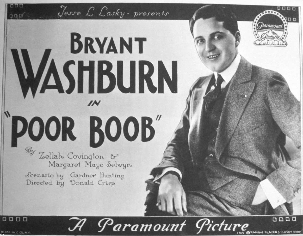 Lobby card for the American comedy film The Poor Boob (1919) with Bryant Washburn.